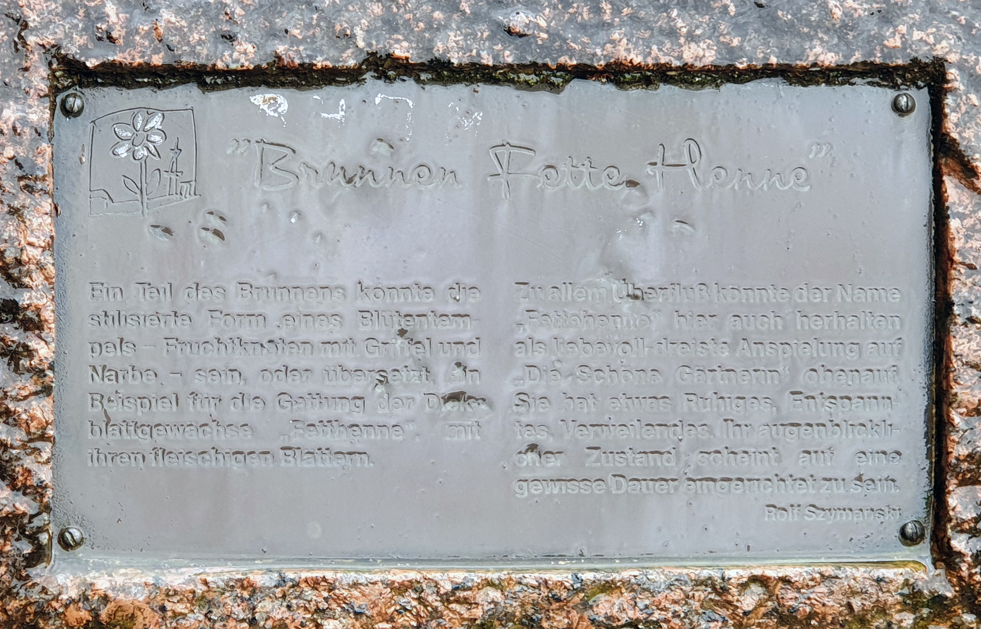 Memorial plaque, Fette Henne, Buckower Damm 160, Berlin-Britz, Germany